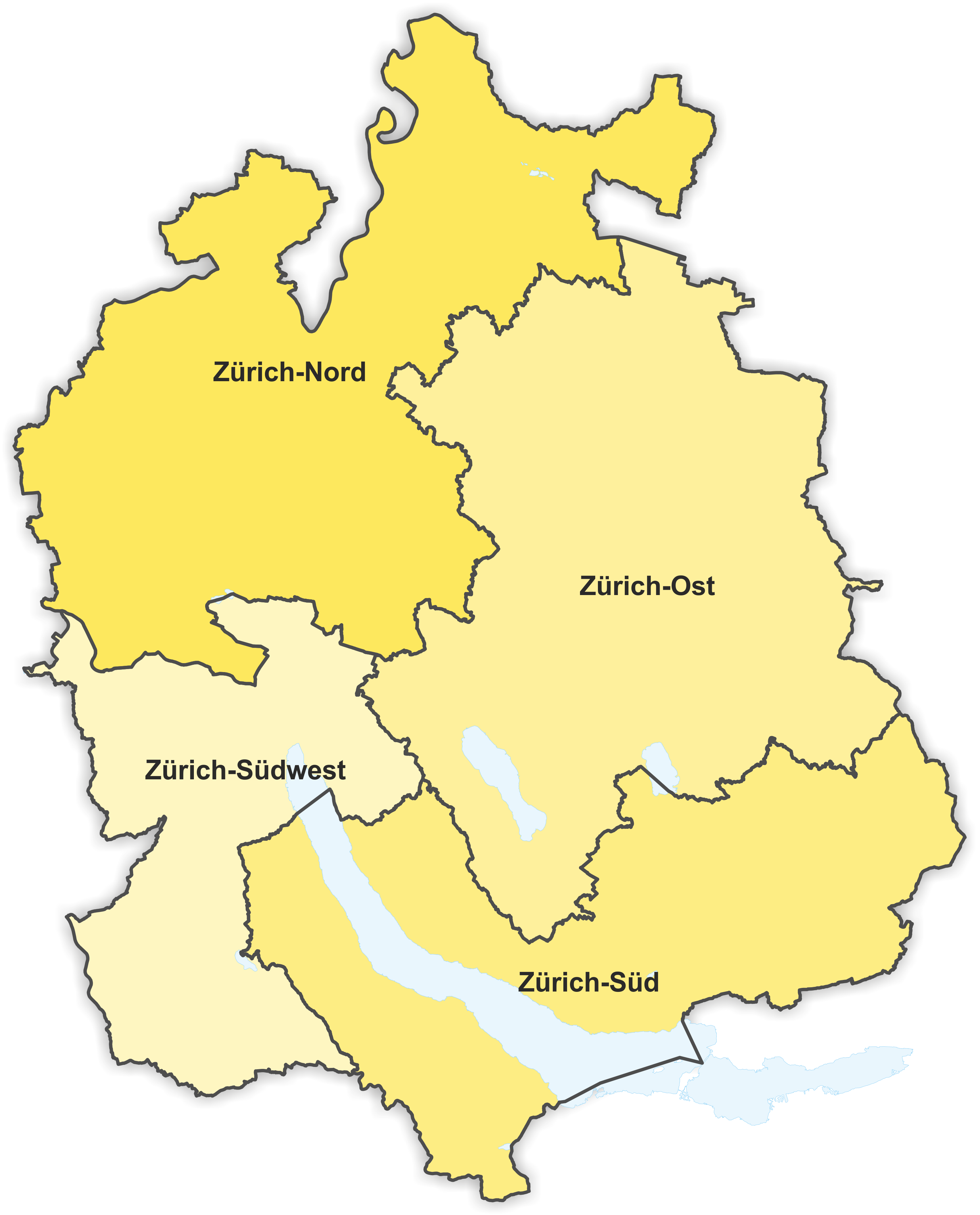 National council constituencies in the canton of Zürich from 1902 to 1908